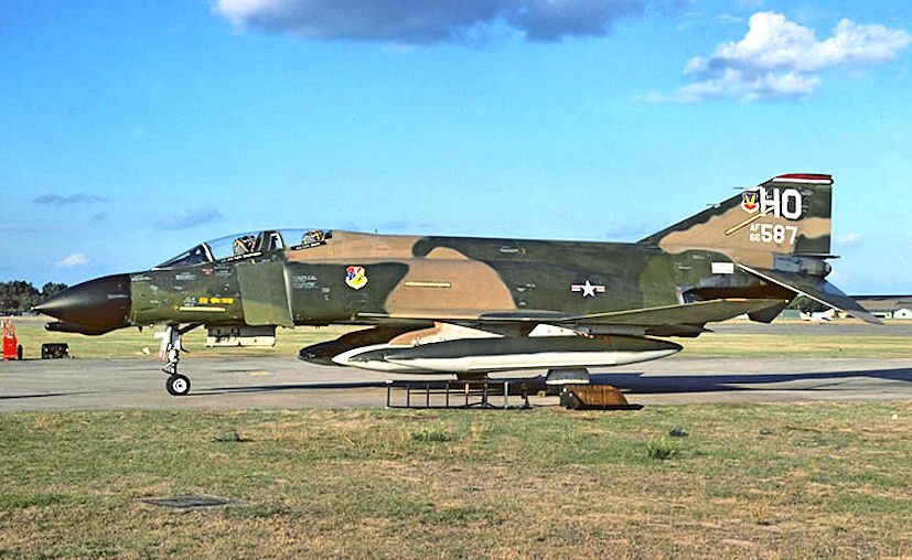 417th Tactical Fighter Training Squadron - McDonnell F-4D-30-MC Phantom 66-7587